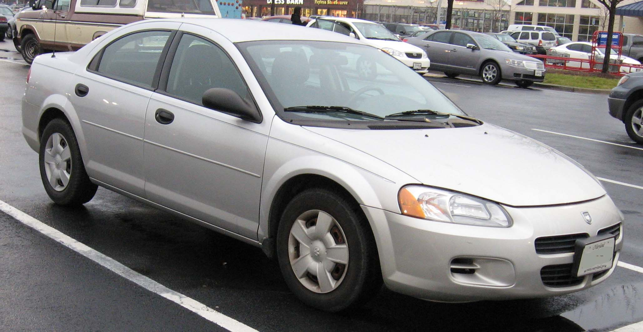 2001-2003 Dodge Stratus photographed in USA.